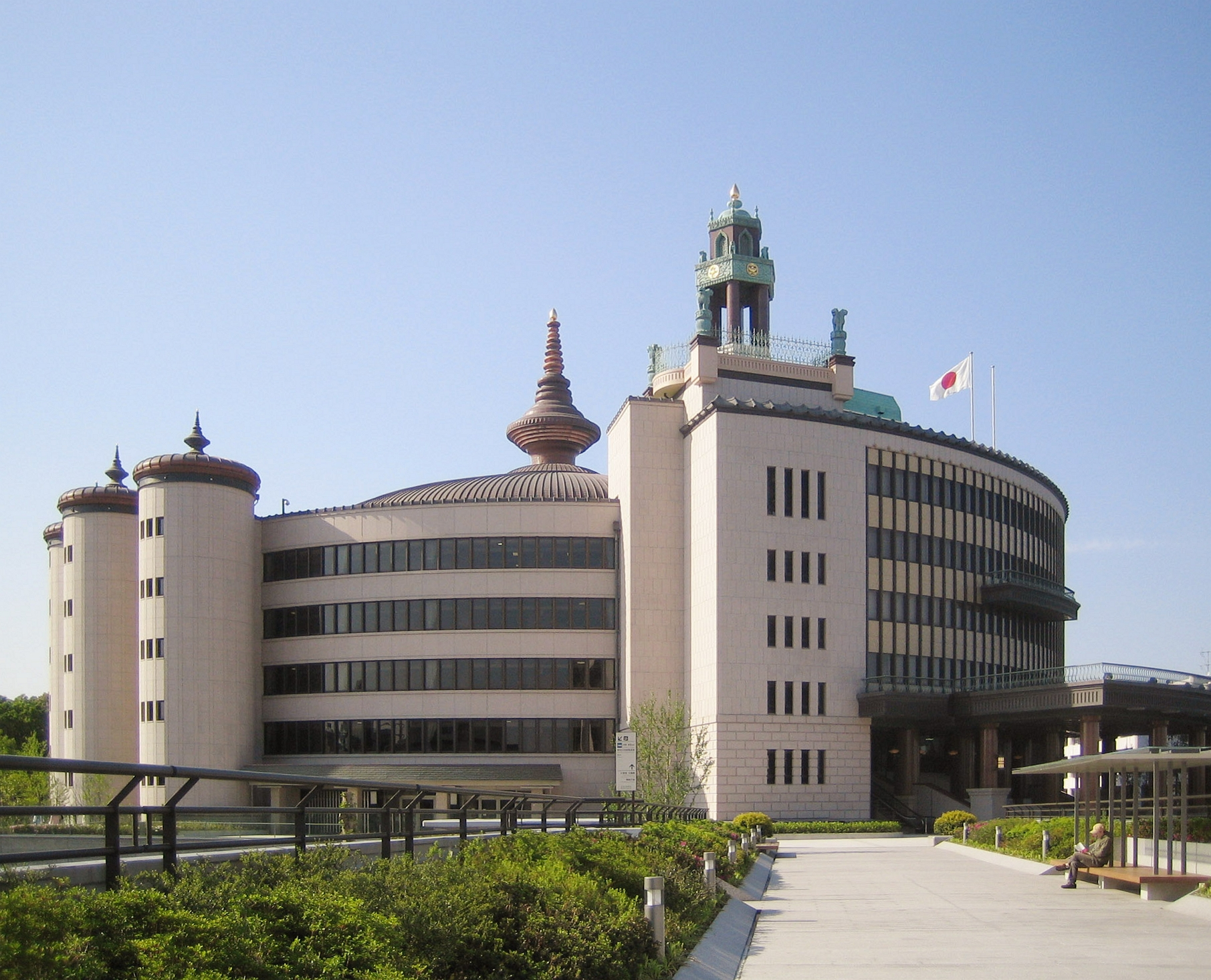 Great Sacred Hall (大聖堂 Daiseidō) of Rissho Kosei-kai (立正佼成会), in Suginami, Tokyo, Japan